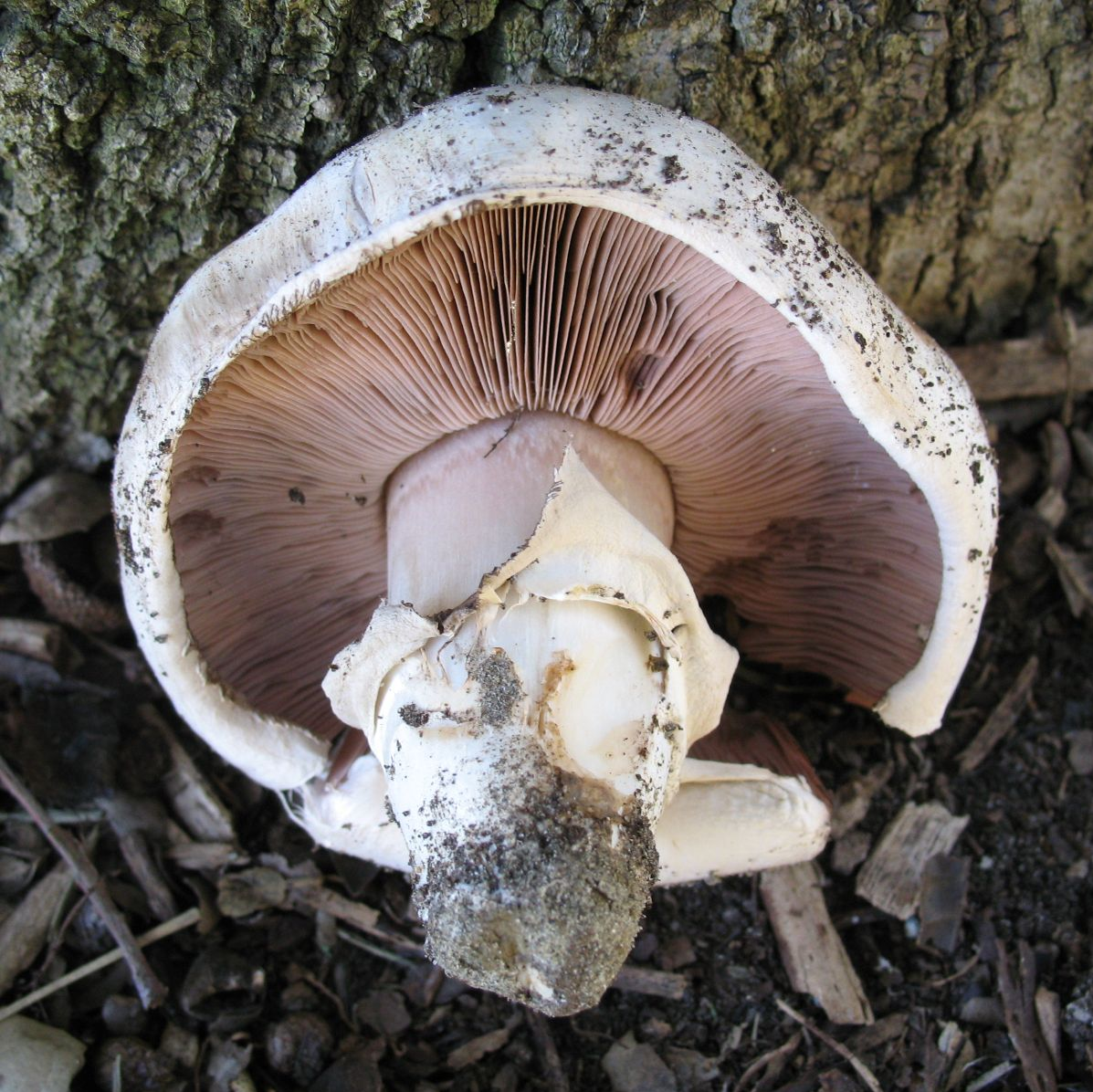 Agaricus bernardii Quél. Location: DreamWorks Campus, Glendale, California, USA Observation Notes: At first I thought this was A. bitorquis since I didn’t see any staining reaction. However, when I sliced it up to dry it, it showed a very slow red stain. The weather has been quite dry which would explain the slow reaction. For more information about this, see the observation page at Mushroom Observer.